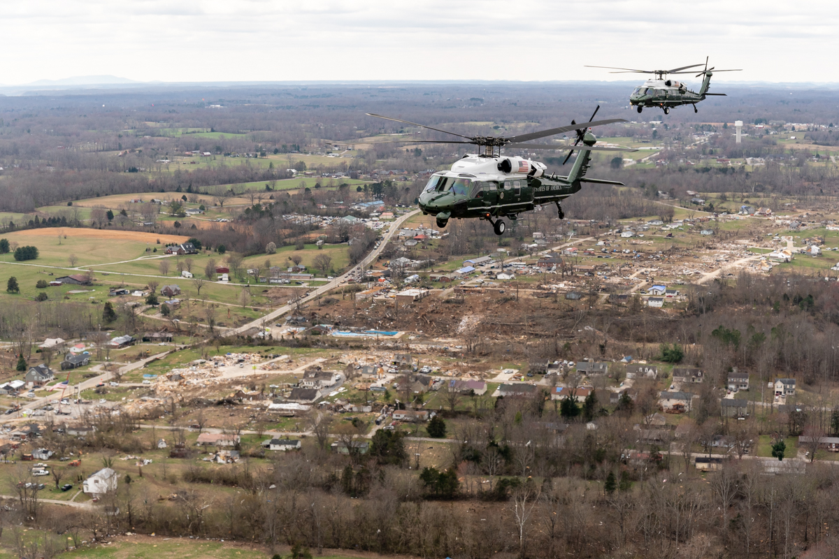 Marine One carrying President Donald J. Trump and escort aircraft fly over tornado ravaged neighborhoods in the Nashville area Friday, March 6, 2020, where a tornado struck early on Tuesday March 3rd killing 24 people. (Official White House Photo by Shealah Craighead)